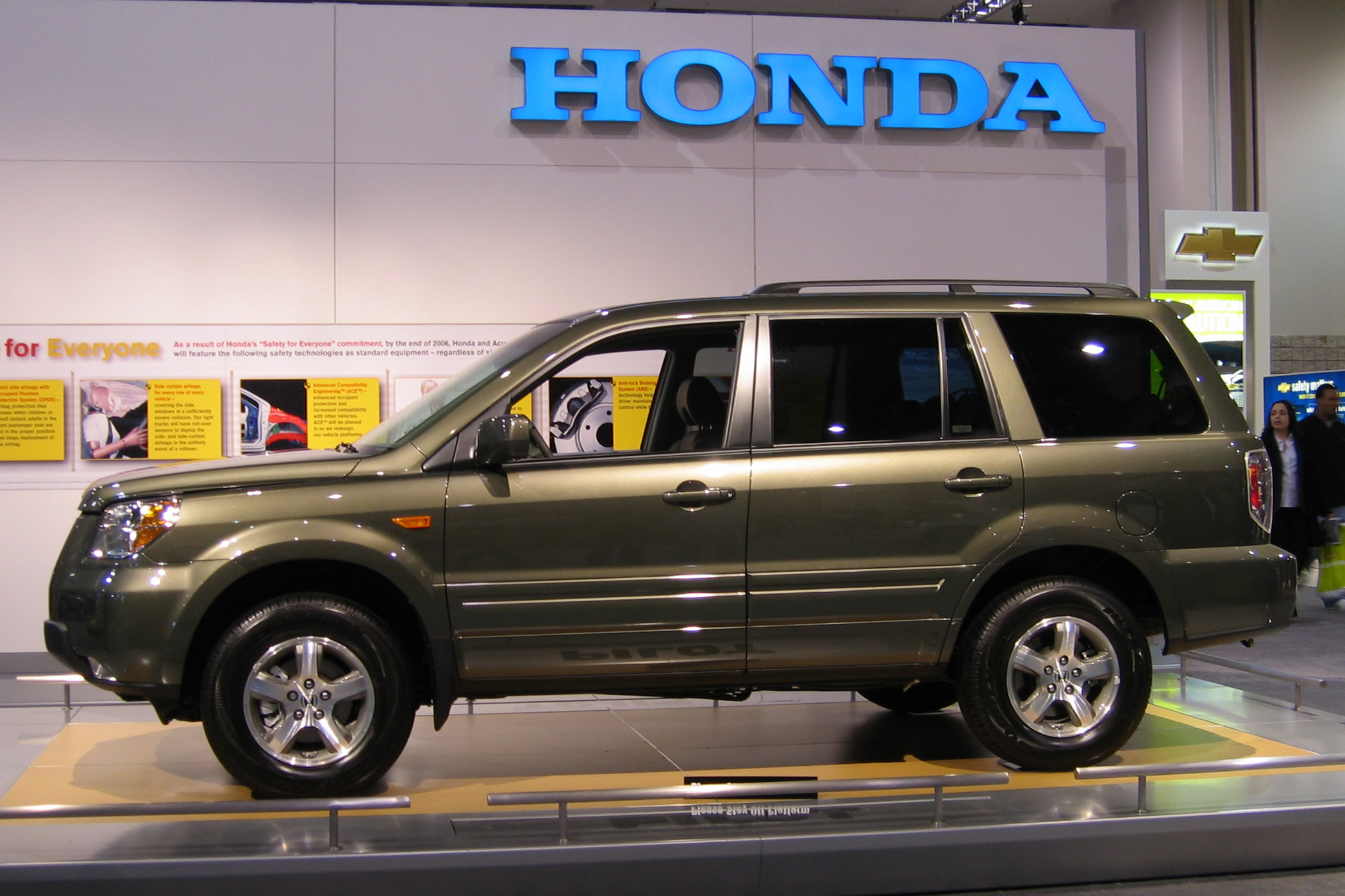 Photo by User:Aude, taken at the 2006 Washington Auto Show.